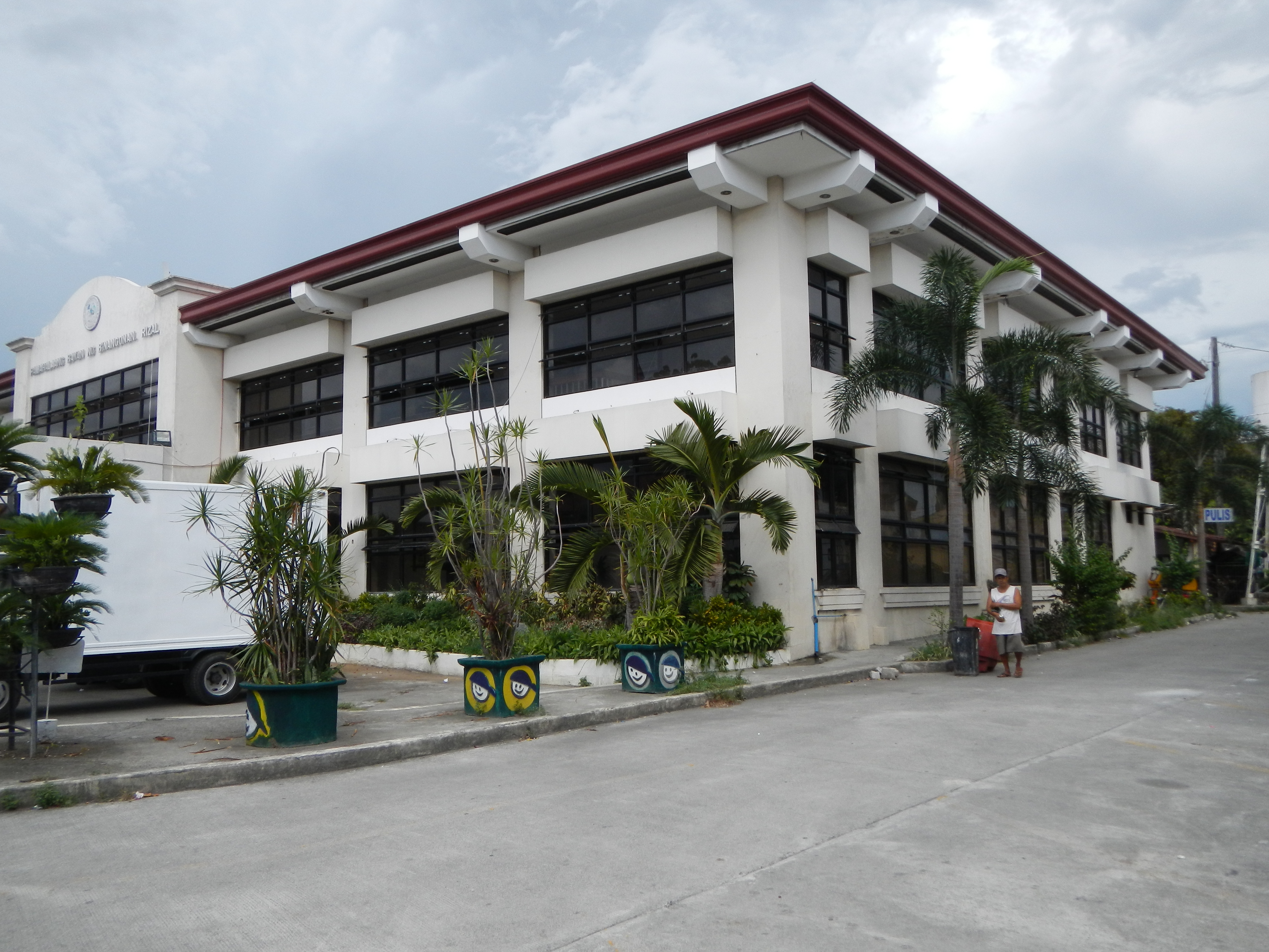 Rare, raw, unedited and original photos of Binangonan Municipal Hall[1] Coordinates: 14°28'54"N 121°11'17"E --- Binangonan, Rizal[2] 1st class municipality and belong to district 1 of Rizal province. Binangonan is politically sub-divided into 40 barangays.Website Coordinates: 14°24'53"N 121°11'57"E [3] 'Pugot', other spirits haunt Binangonan mansion 10/30/2012 Giwang Giwang Festival of Binangonan Rizal ---------[N.B. June 2, Sunday day, 2013 Photography of Angono, Rizal[4], Binangonan, Rizal[5] and Cardona, Rizal[6]: 80% cloudy and 20% sunny weather using my Nikon AW 100 waterproof shockproof camera. From Bulacan at 10:45 a.m., I took photo at 12:25 pm of Goldenhills Jewelry of Antonio Z. Atienza, Jr.[7] in Robinsons Ortigas; and reached Angono, Rizal junction, crossing at 2:06 pm, then took photos of Binangonan Municipal Hall at 2:44 pm; I finished Cardona, Rizal photography at 5:17 p.m., and arrived at Bulacan at 9:30 pm after 3+ hours of travel by bus, and started uploading via slow internet at 9:50 pm - I hereby certify that these rarest, raw, original and unedited photos are exclusive for Commons and Wikipedia never uploaded in any Internet or any site, and for the public domain without any condition.]